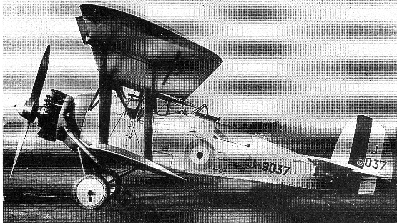 The sole Armstrong Whitworth Aries, December 1931